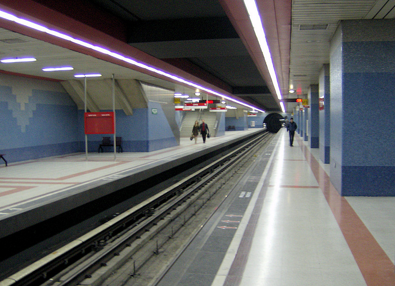 A photo of the Kızılay station of Ankara Metro